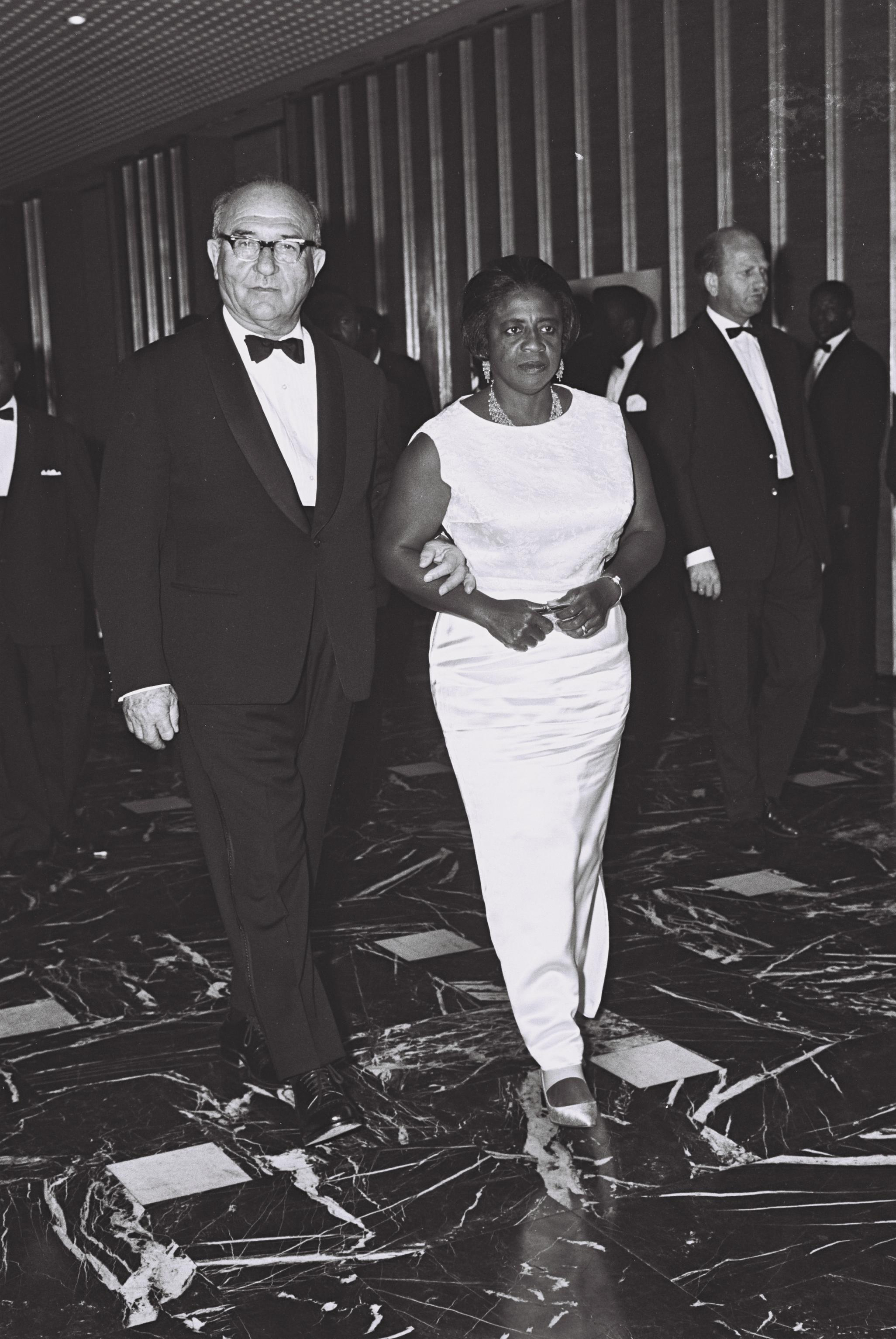 P.m. Levy Eshkol leading mrs. Tubman to the dining hall for a dinner given by him in honor of president Tubman at the Dukor palace hotel in Monrovia.